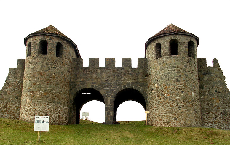 A old and historically incorrect reconstruction from a Porta Praetoria, the gate of ancient Roman castra Porolissum (8 km from Zalău, Romania). It has a false battlements distance, the towers are too low, the reconstruction shows no cornice on walls and towers etc.